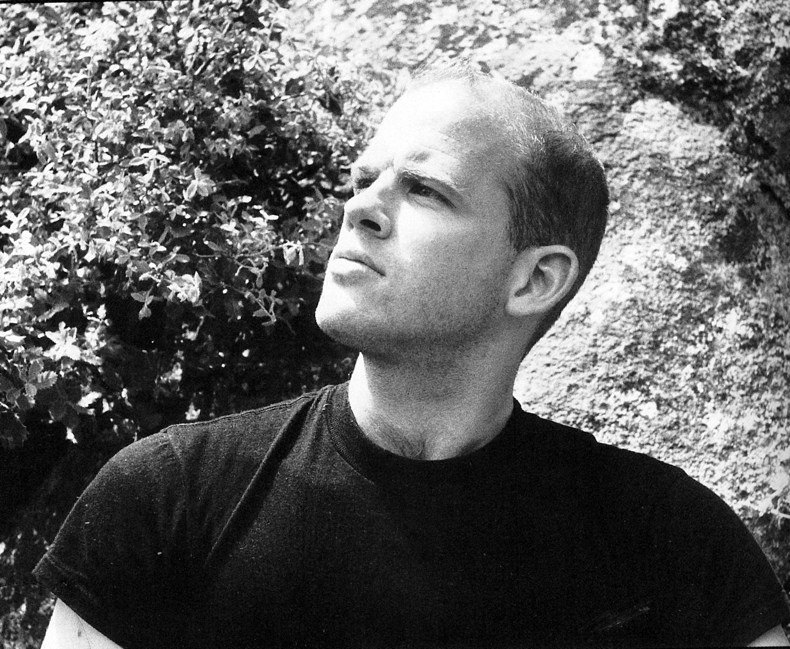 A photo of rock climber Chuck Pratt taken by Tom Frost.